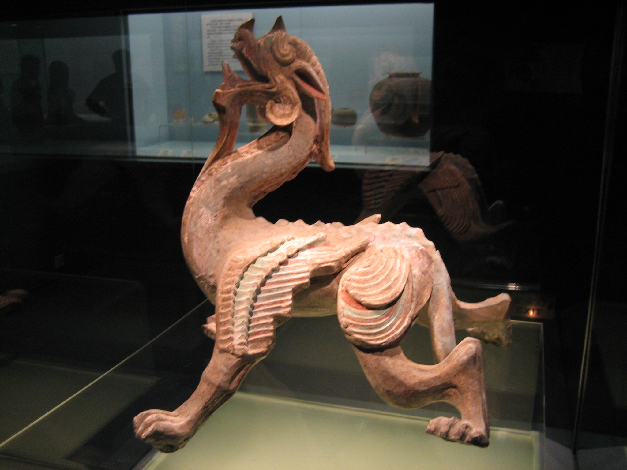 Bixie, a traditional Chinese monster, at Shanghai Museum